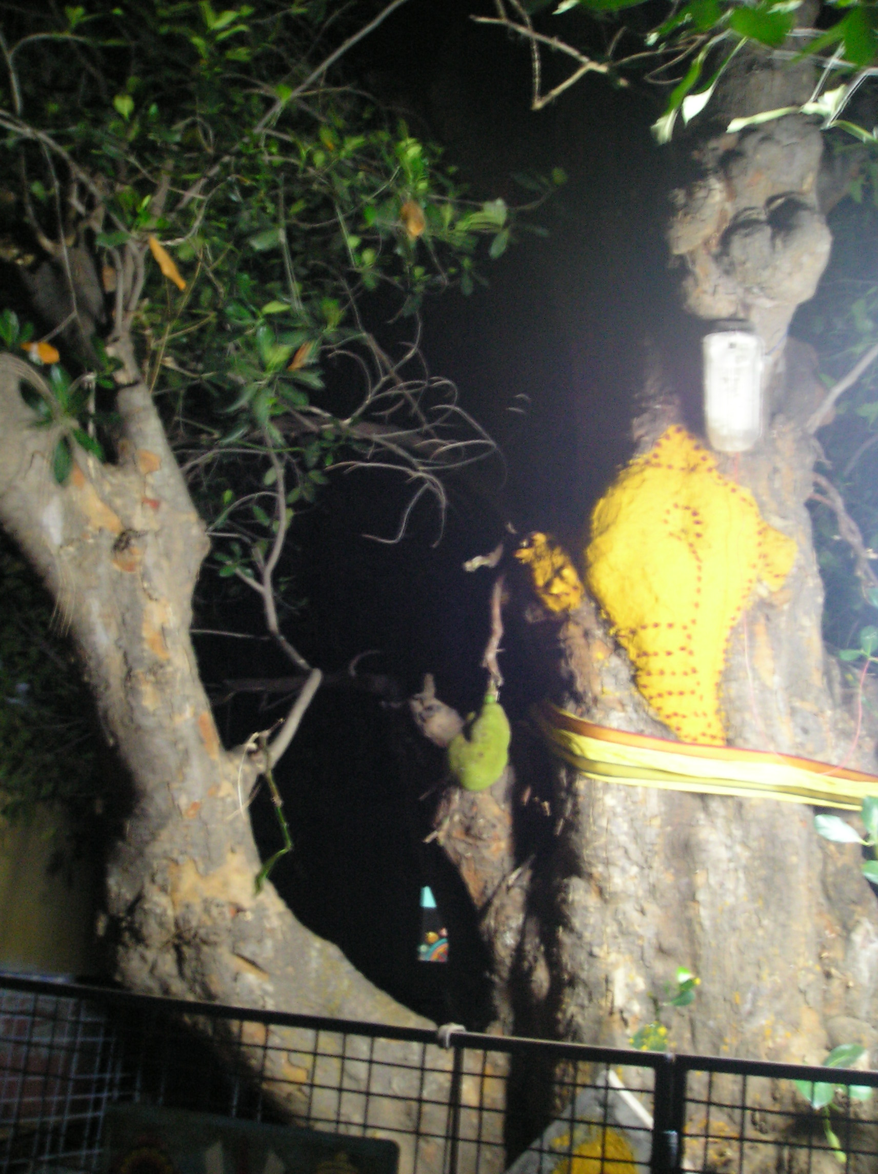 Pictures of Tirukoodalur Jagath Rakshaka Perumal temple